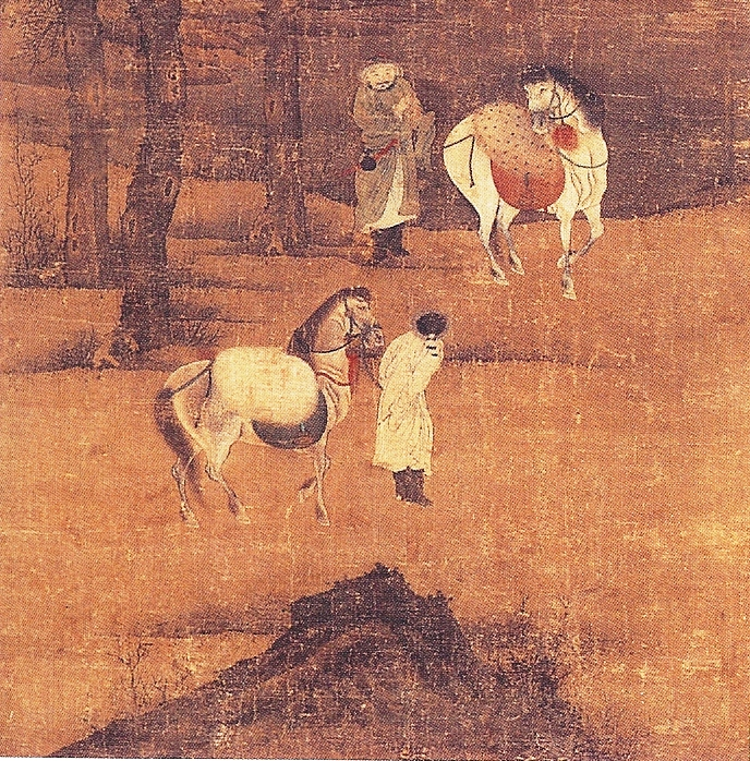 Close-up detail of Winter landscape with barren trees and two horsemen by Song Dynasty Chinese artist Liang Kai, early 13th century, a hanging scroll with ink on silk, located at the Freer Gallery of Art in Washington D.C.